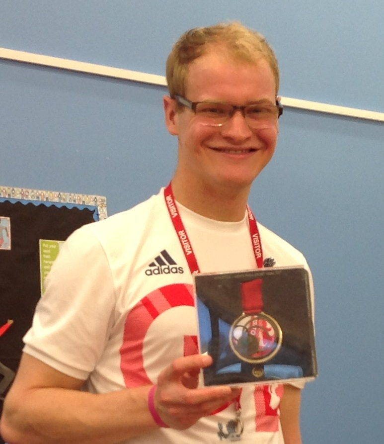 Rhys Jones while visiting Ynyshir Primary School in May 2017